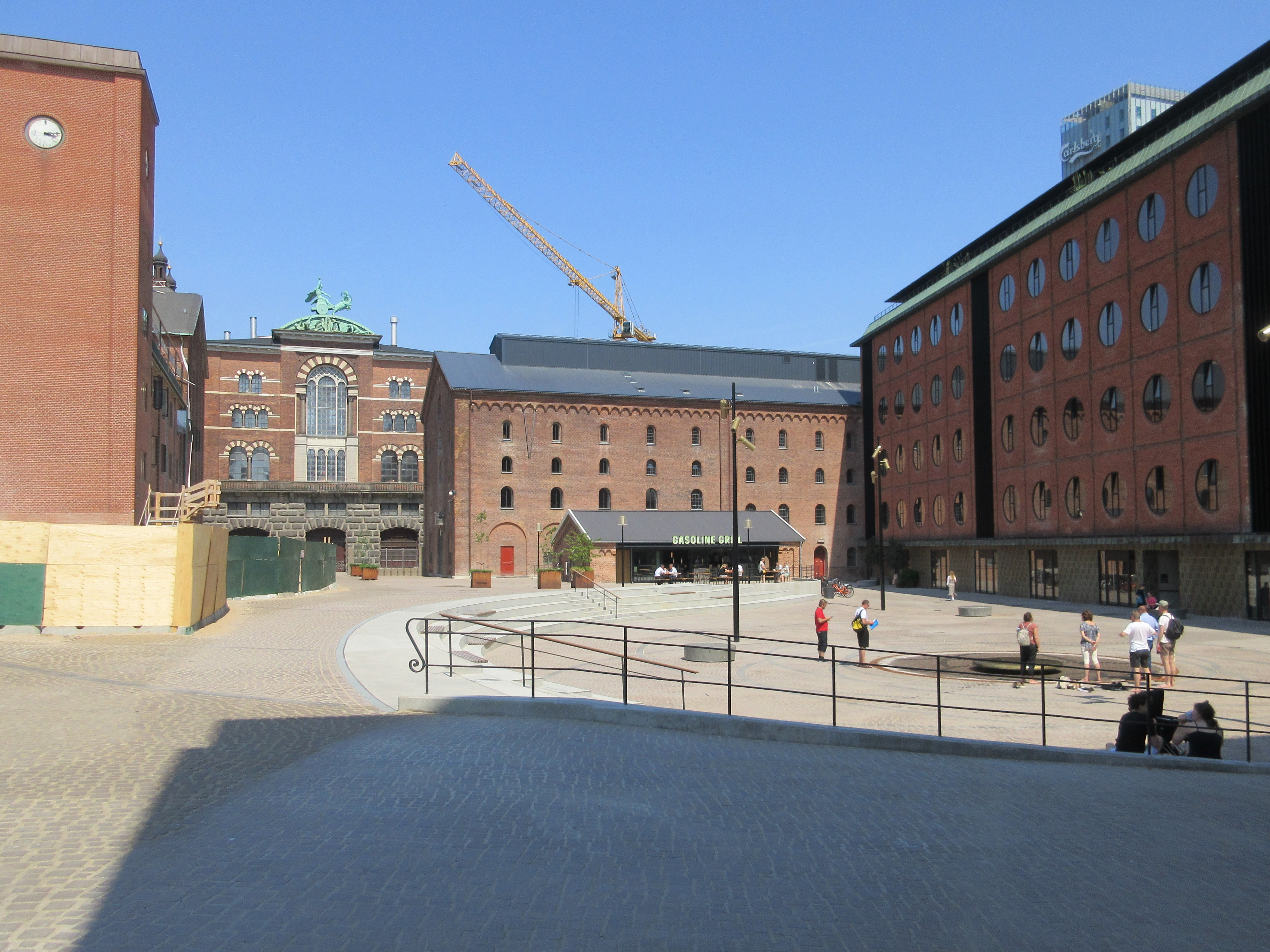 bryggernes plads in Copenhagen, Denmark